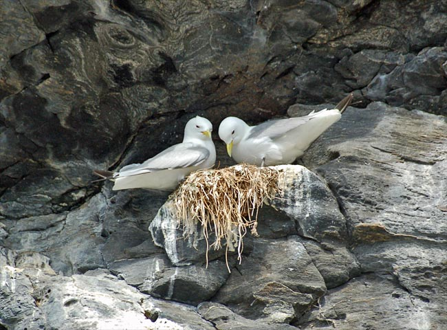 Kittiwakes (Rissa tridactyla) at the norwegian bird-island Runde